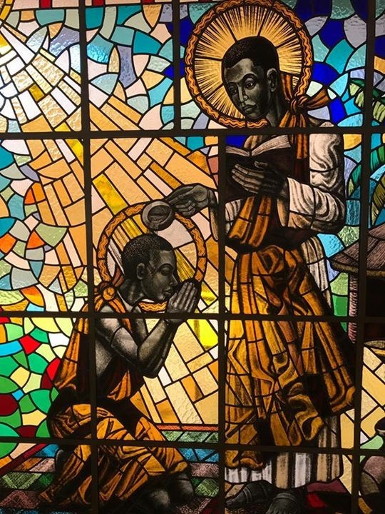 Stained glass at Munyonyo Martyrs Shrine Church (Kampala) at place were St. Kizito was baptised.